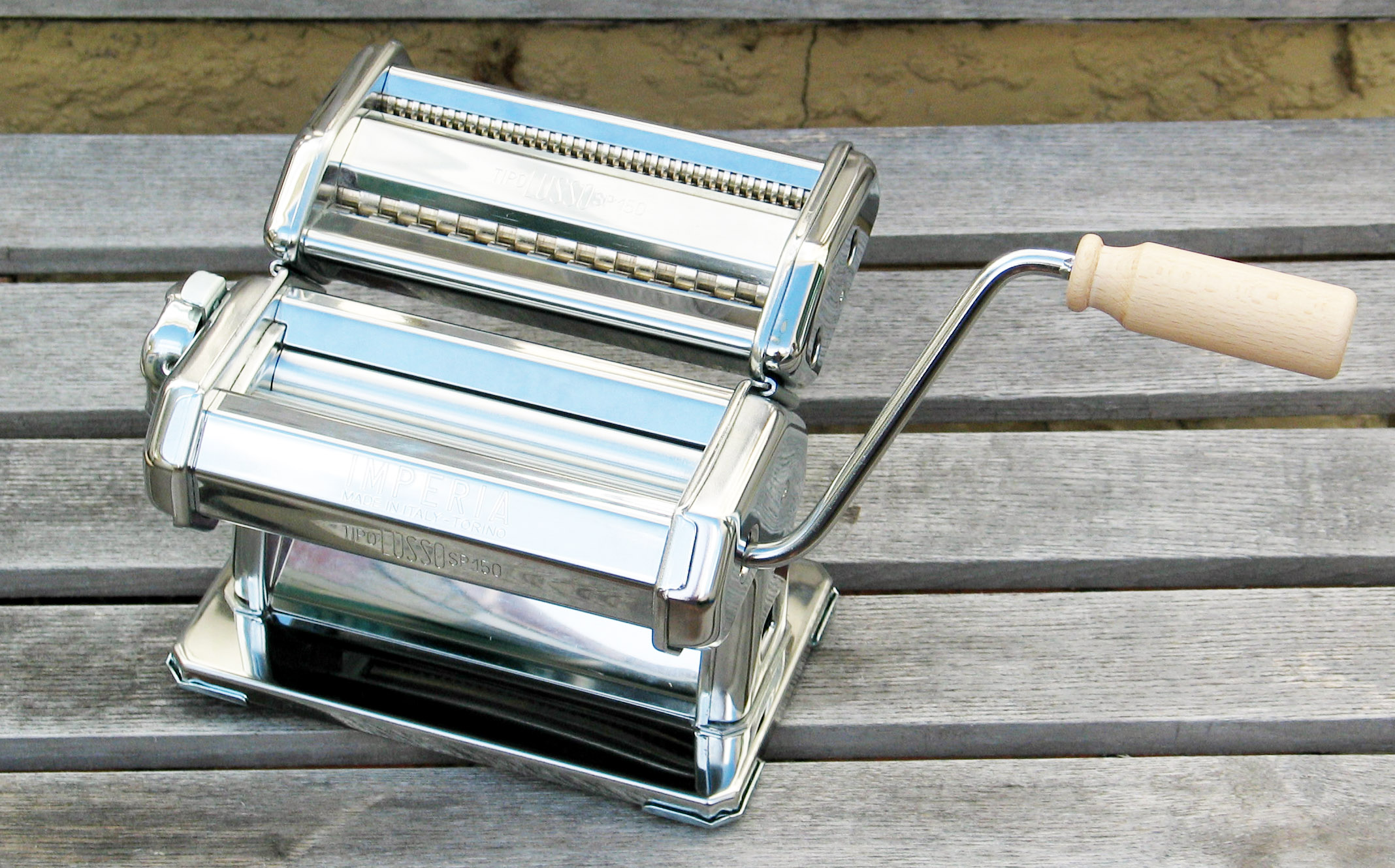 This is a hand powered pasta making machine.